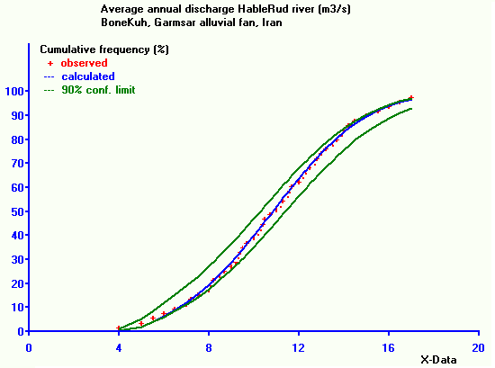 Cumulative frequency distribution of the annual average river discharge of Hableh Rud river used for irrigation in Garmsar alluvial fan, Iran, showing a large variation.